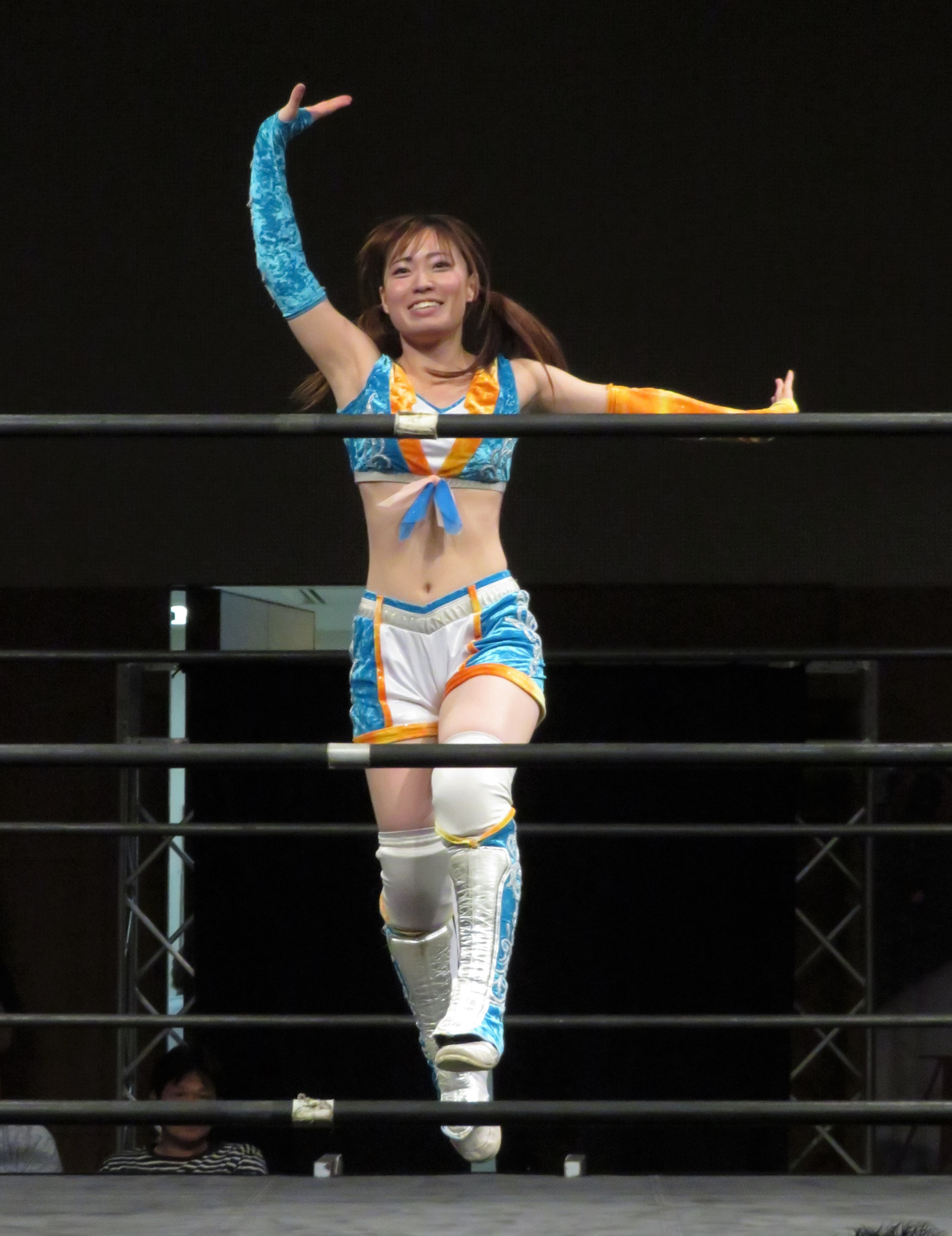 hikarishimizu enter the ring